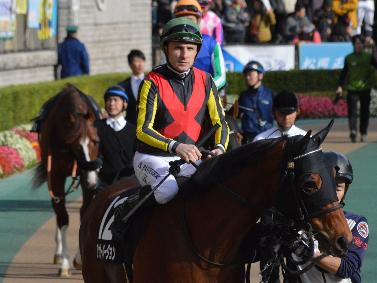 ステファン・パスキエ騎手（2015年11月29日東京平場戦）Stephane Pasquier Jockey at Tokyo Racecourse.